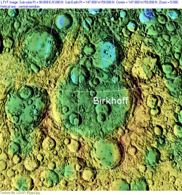 Clementine LIDAR Altimeter texture from PDS Map-a-Planet remapped to north-up aerial view by LTVT.